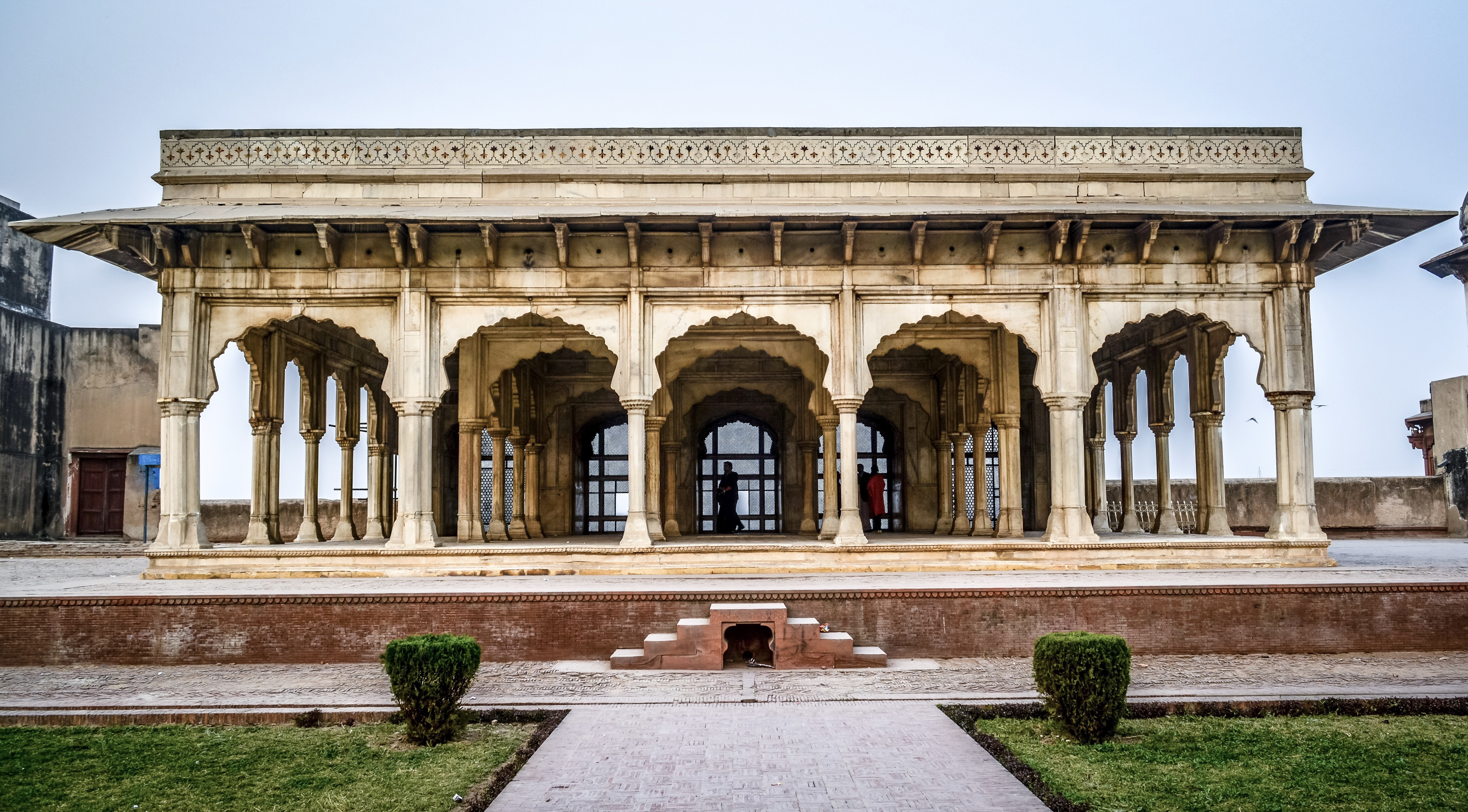 Lahore Fort complex (including Moti Masjid, Naulakha Pavilion, Sheesh Mahal and others) This is a photo of a monument in Pakistan identified as the PB-67